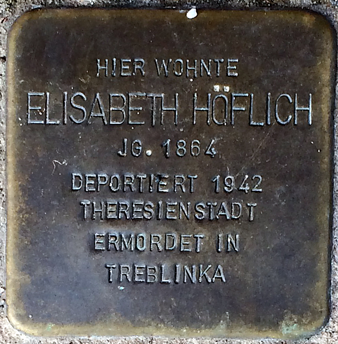 Stolperstein - Stumbling Stone in Nettetal, NRW, Germany Elisabeth Hoeflich